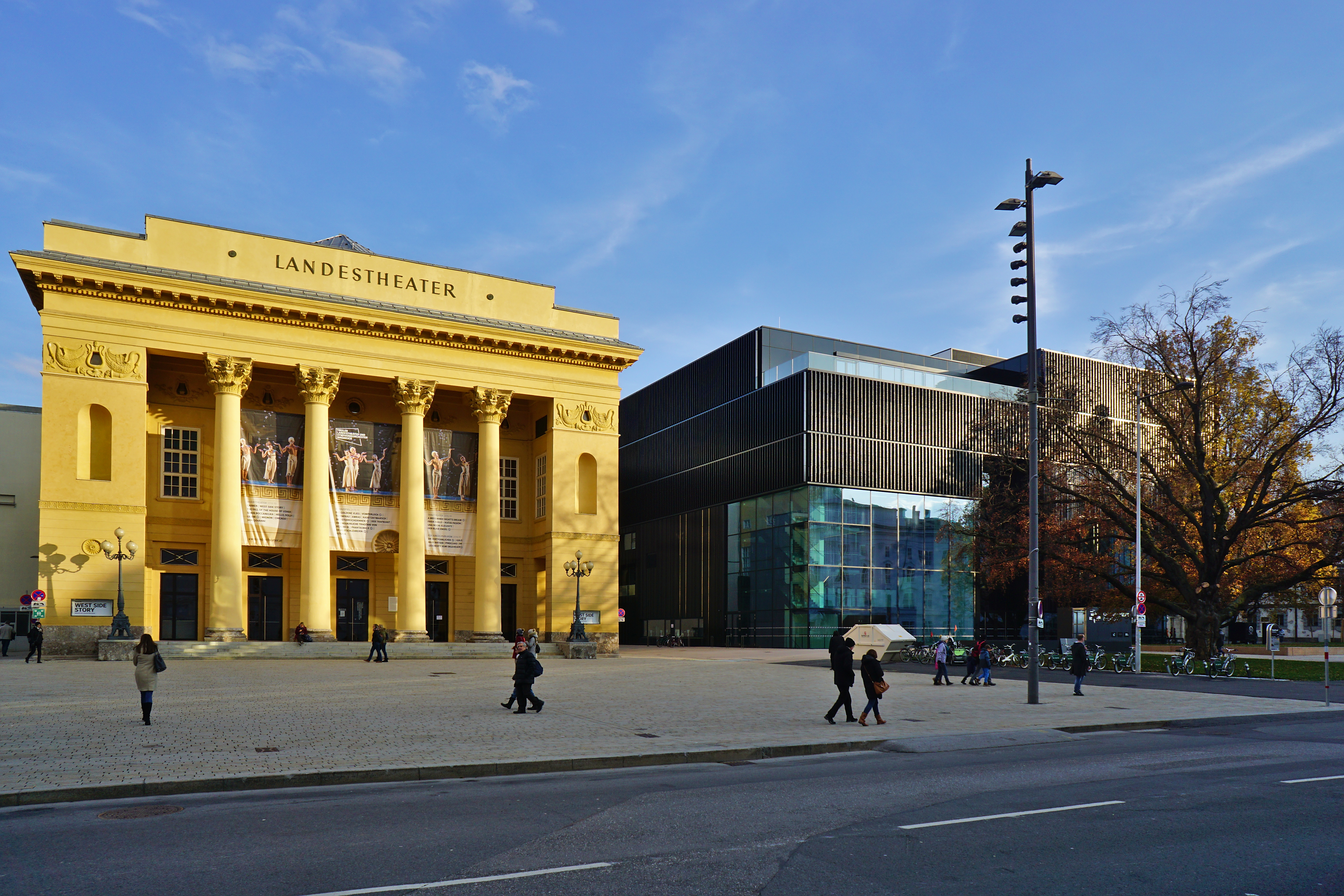 Landestheater Innsbruck